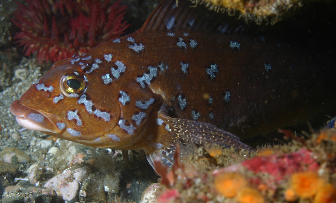 Male kelp greenlings (Hexagrammos decagrammus) usually swim away from divers, but this male followed us for more than 10 minutes.